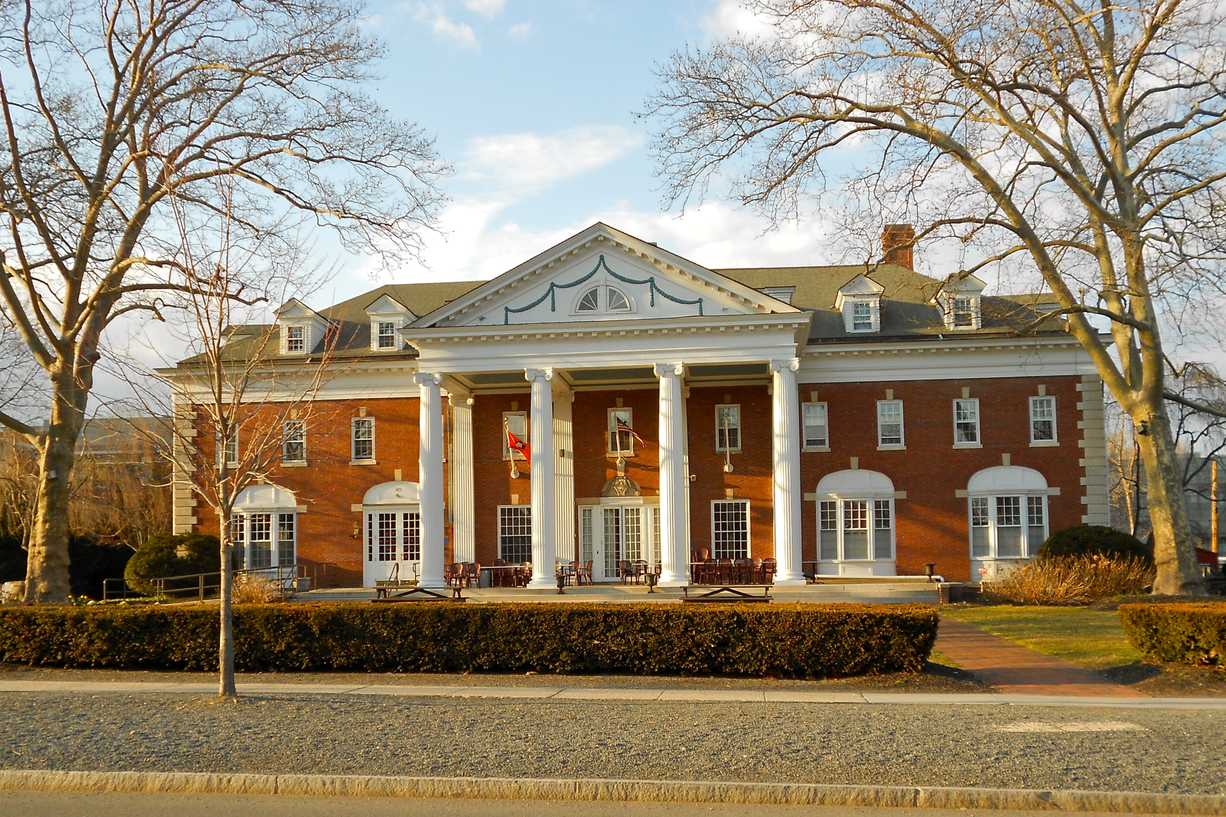 Colonial Club operated as Eating Club ay Princeton University 1891–present 40 Prospect Ave. This building built 1906 Princeton, New Jersey.